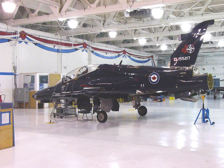 I took this photo of BAe CT155 Hawk 155217 at CFB Moose Jaw on 3 November 2005